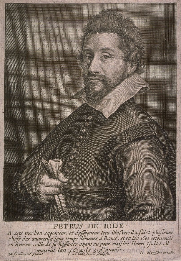 Portrait of Petrus de Iode (1570-1634), father of Pieter de Jode II, printed after his death August 9th, 1634, as a memorial.